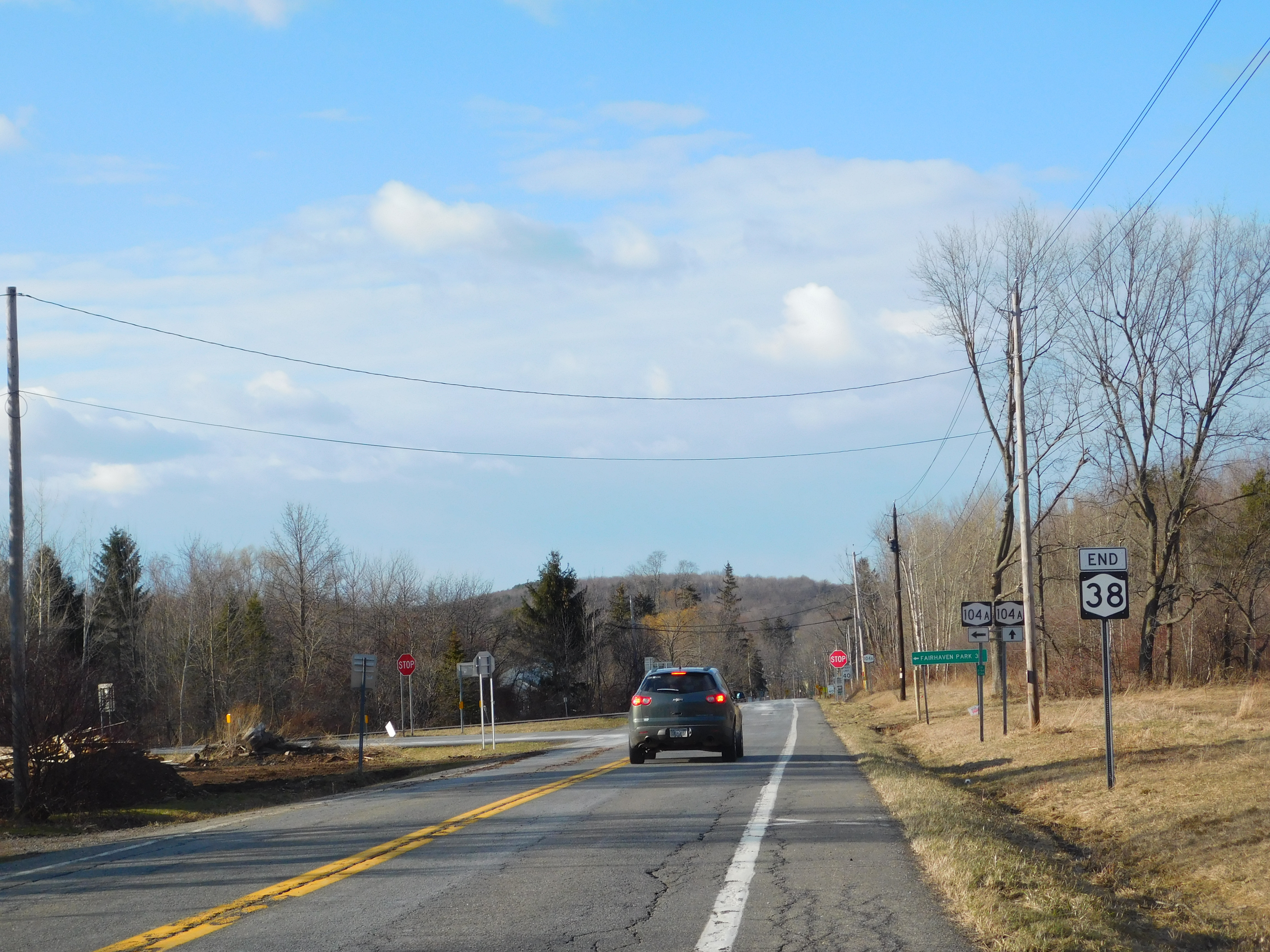 NY 38 northbound approaching NY 104A.